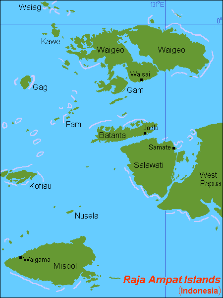 Map (rough) of Raja Ampat islands, Indonesia, own work composed from various mapreferences